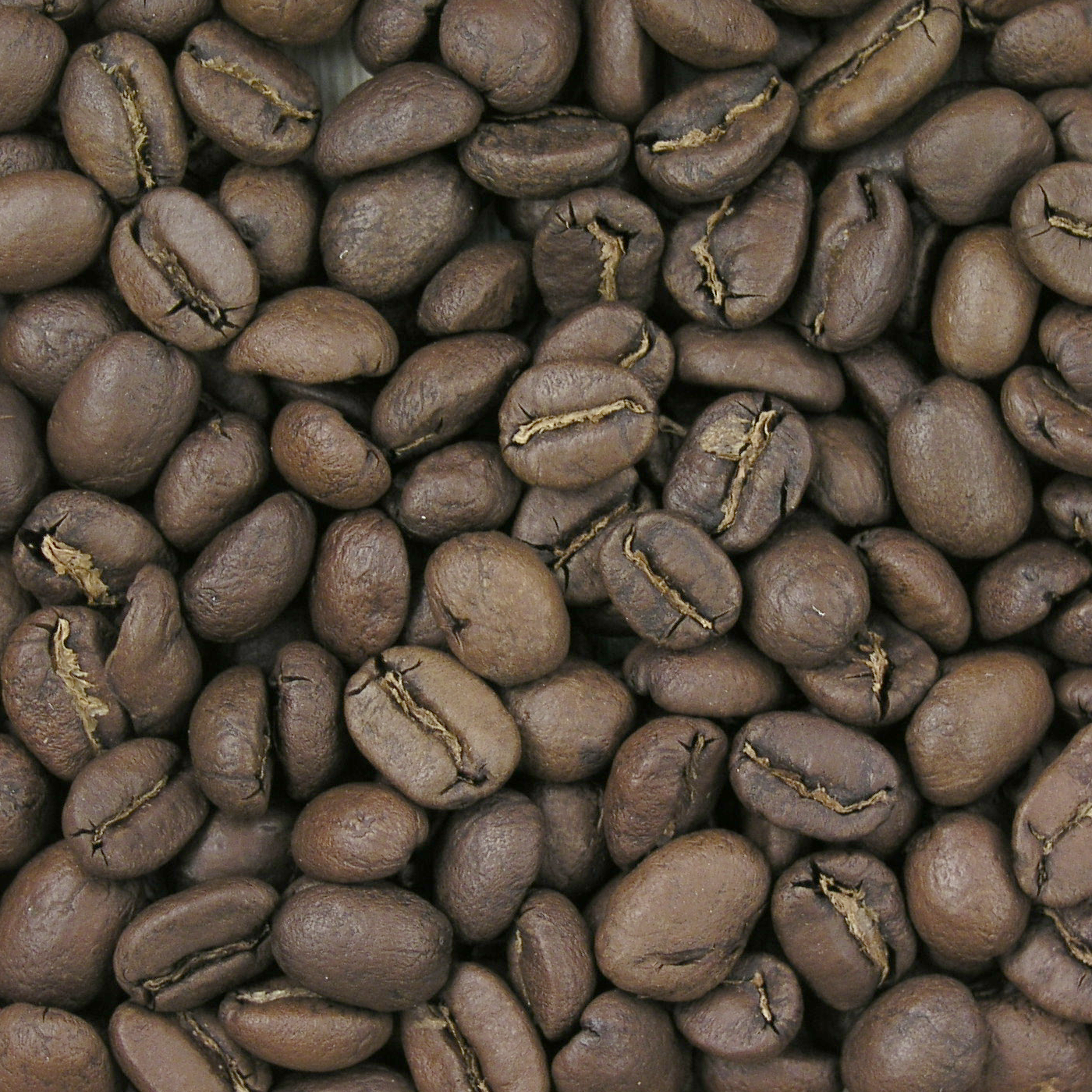 Typical Brazilian coffee at 410° F, or American roast.